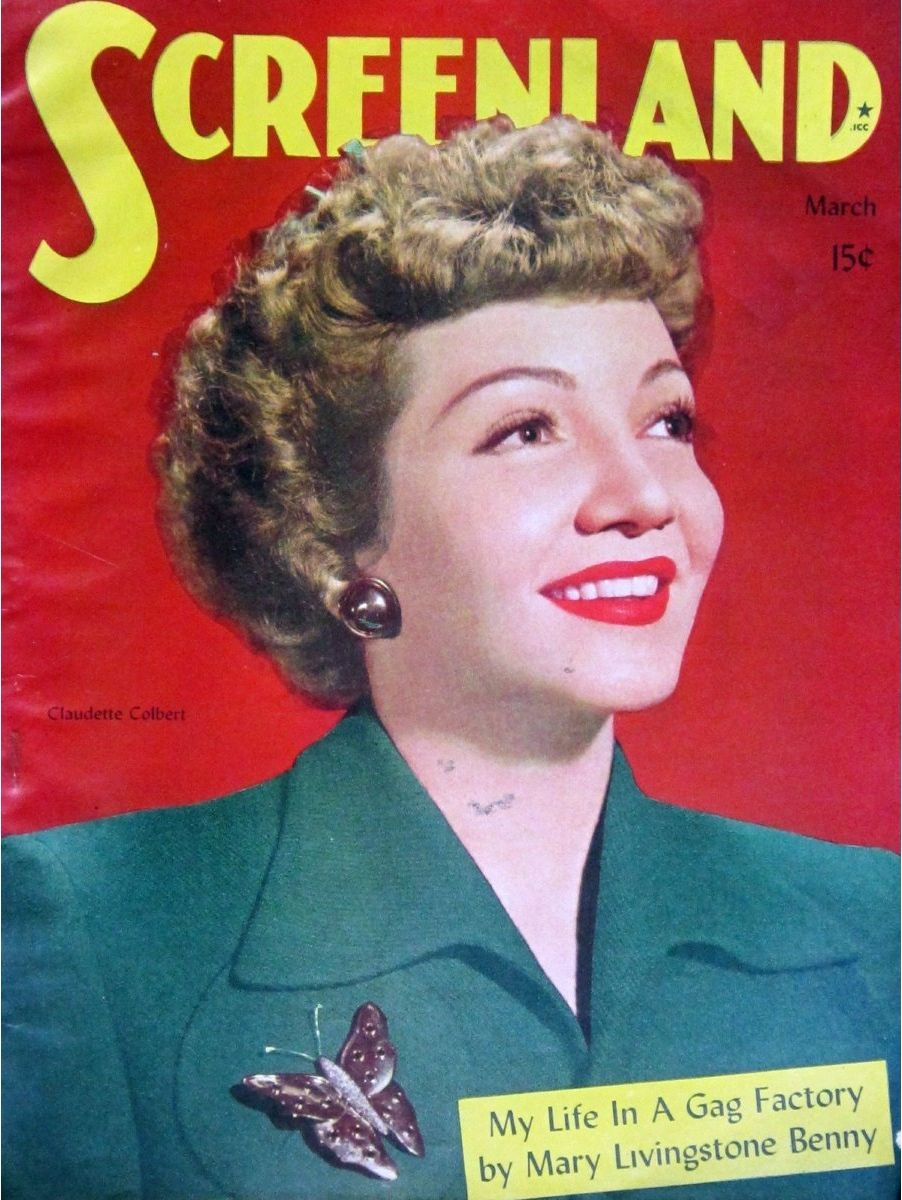 Claudette Colbert